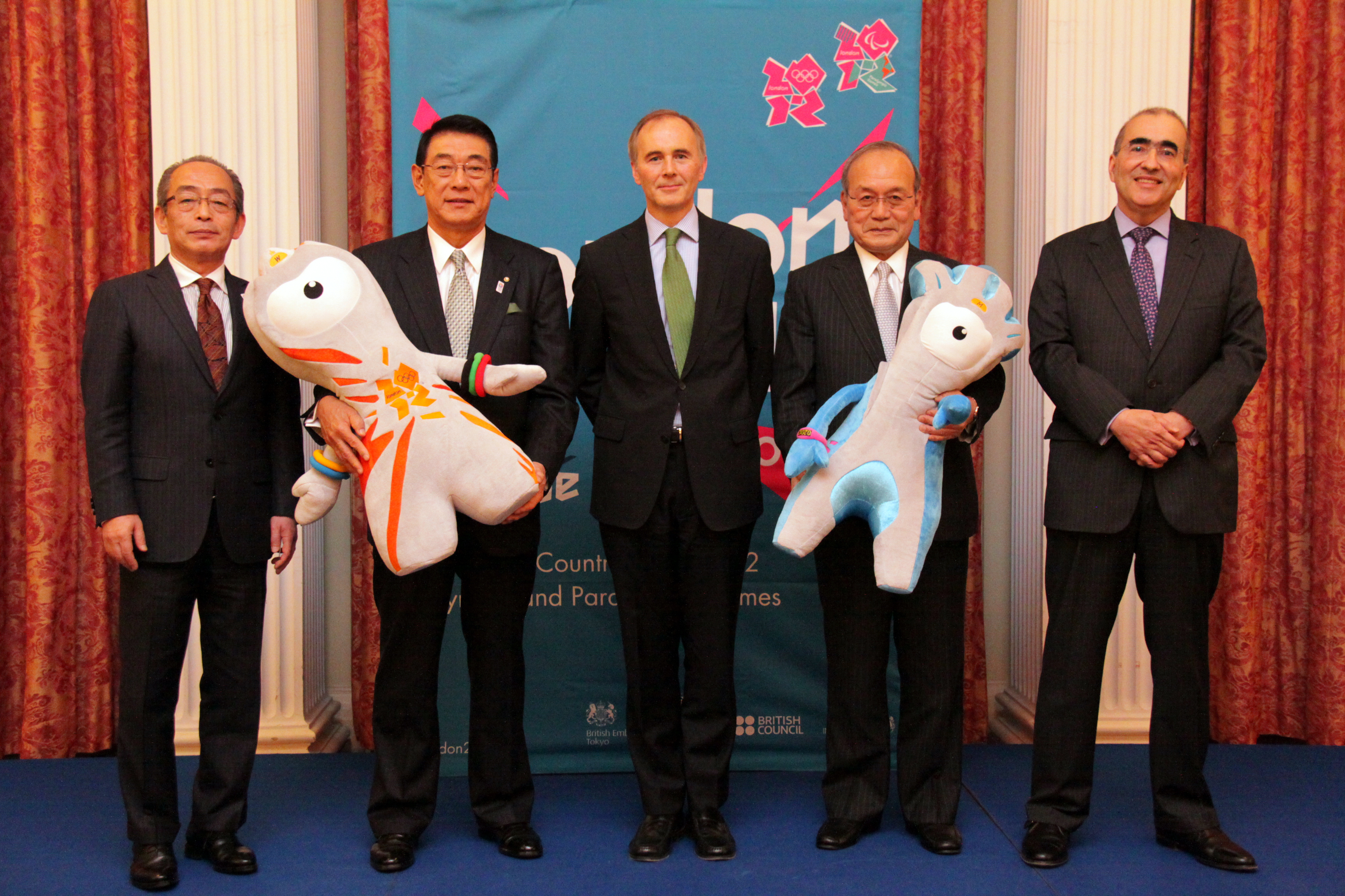 Britain’s new Ambassador to Japan Tim Hitchens hosted a reception at his Residence on 13 December to celebrate the success of London 2012. From left: Mr Toshiyuki Akiyama, Vice Governor, Tokyo Metropolitan Government Mr Noriyuki Ichihara, Secretary General, Japanese Olympic Committee Tim Hitchens, British Ambassador to Japan Mr Mitsunori Torihara, President, Japan Paralympic Committee Mr Marcos Galvo, Brazilian Ambassador to Japan